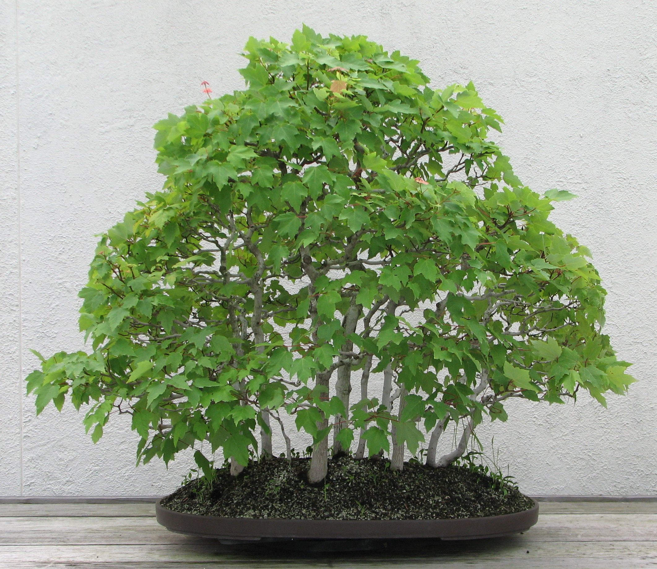 A Red Maple (Acer rubrum var. drummondii) bonsai on display at the National Bonsai & Penjing Museum at the United States National Arboretum. According to the tree's display placard, it has been in training since 1974. It was donated by Vaughn L. Banting.